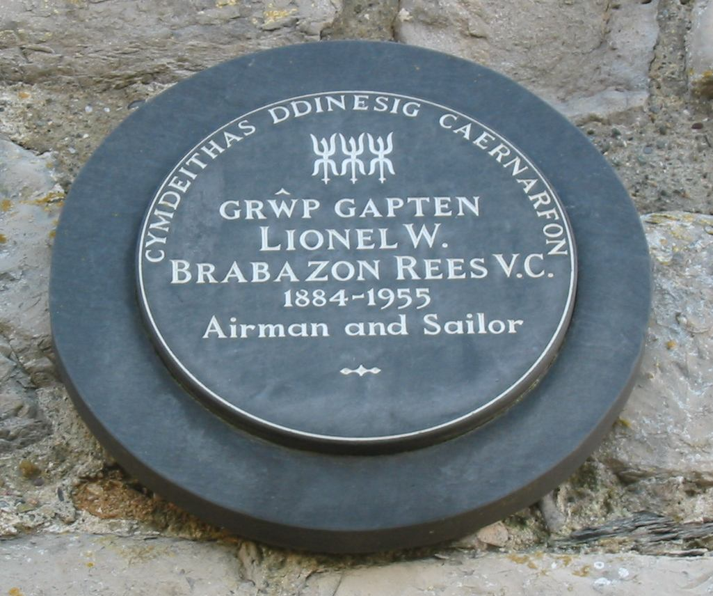 Wall plaque for Lionel Rees VC OBE MC, Welsh World War I pilot and Victoria Cross recipient.